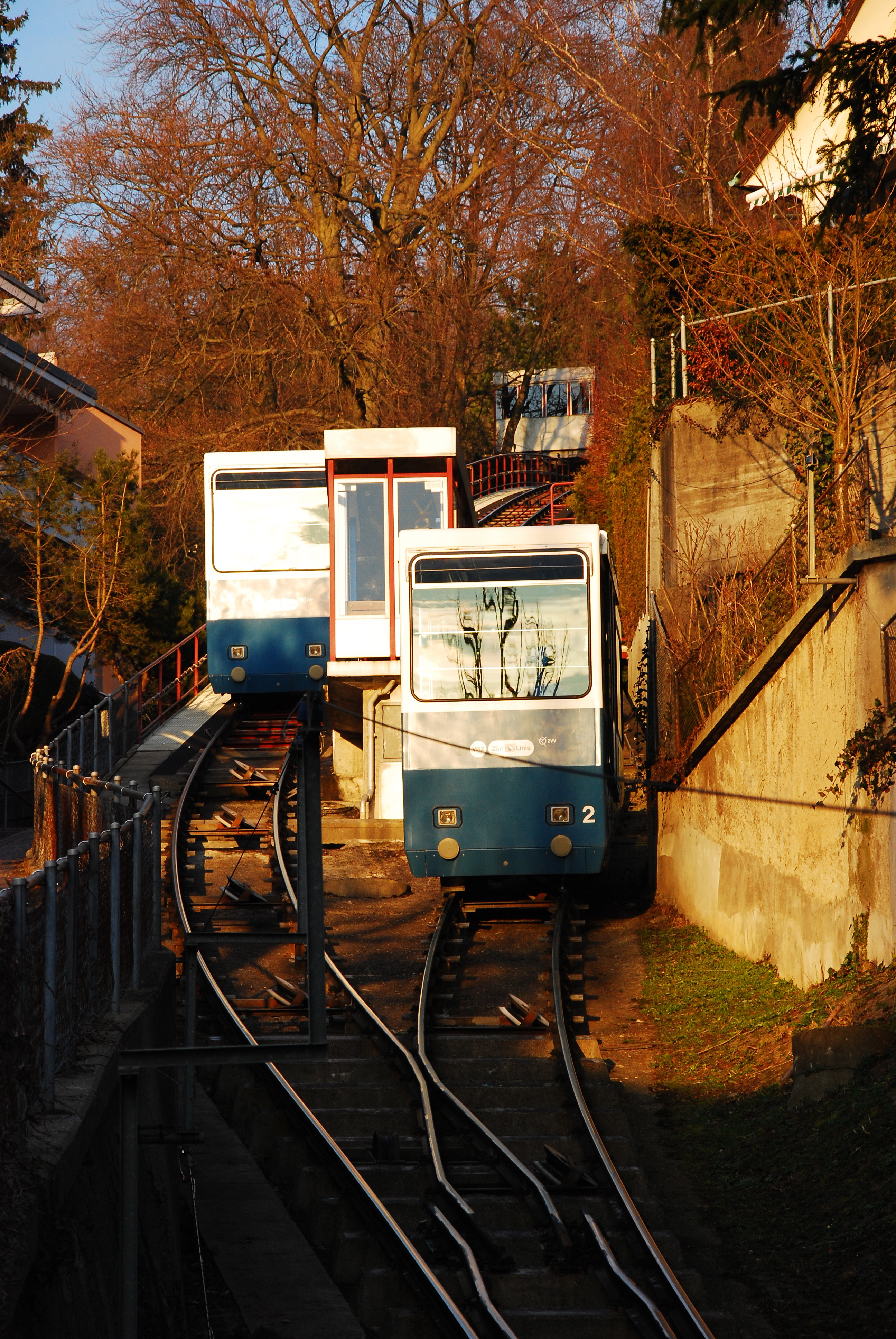 Cars passing at the passing loop and intermediate station of the Rigiblick funicular in the Swiss city of Zurich. For more information, see the wikipedia article Rigiblick funicular.